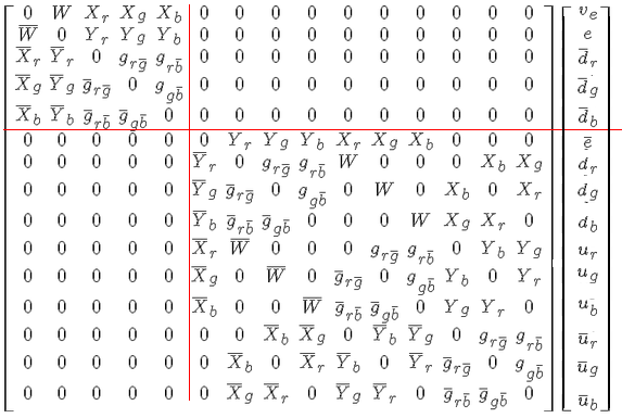 SU(5) fermions of standard model in 5+10 representations. The sterile neutrino singlet's 1 representation is omitted. Neutral bosons are omitted, but would occupy diagonal entries in complex superpositions. X and Y bosons as shown are the opposite of the conventional definition